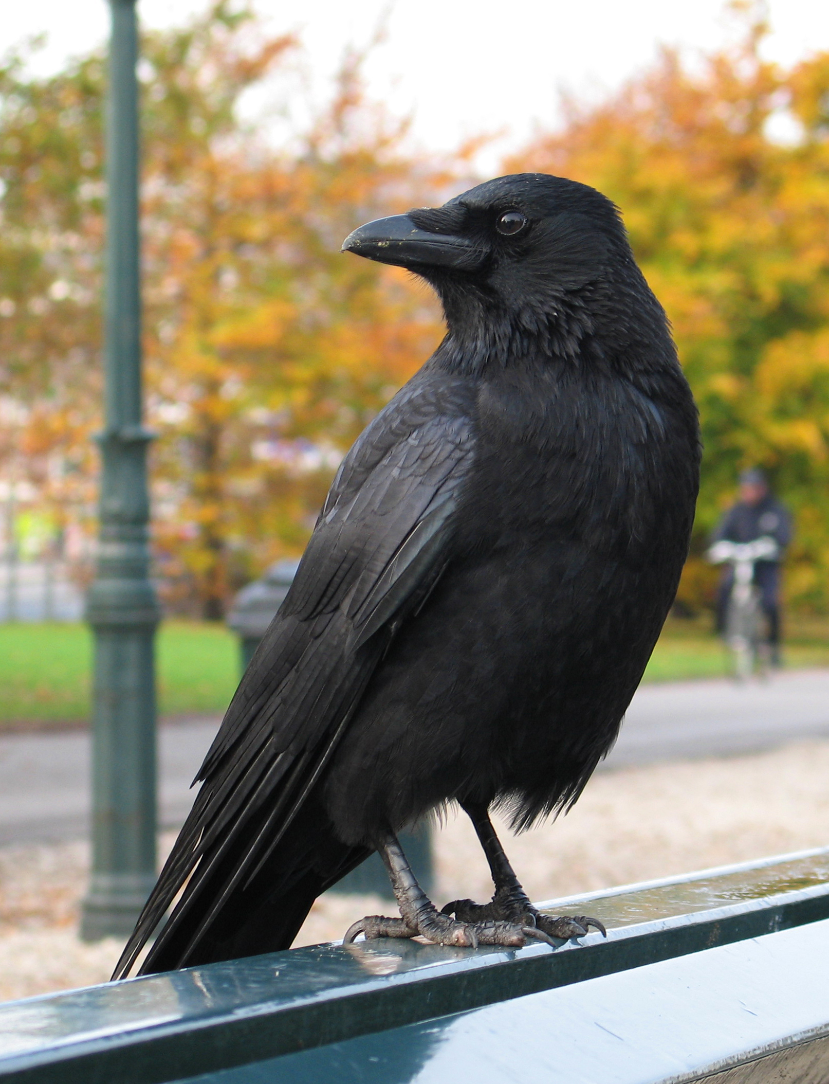 Corvus corone